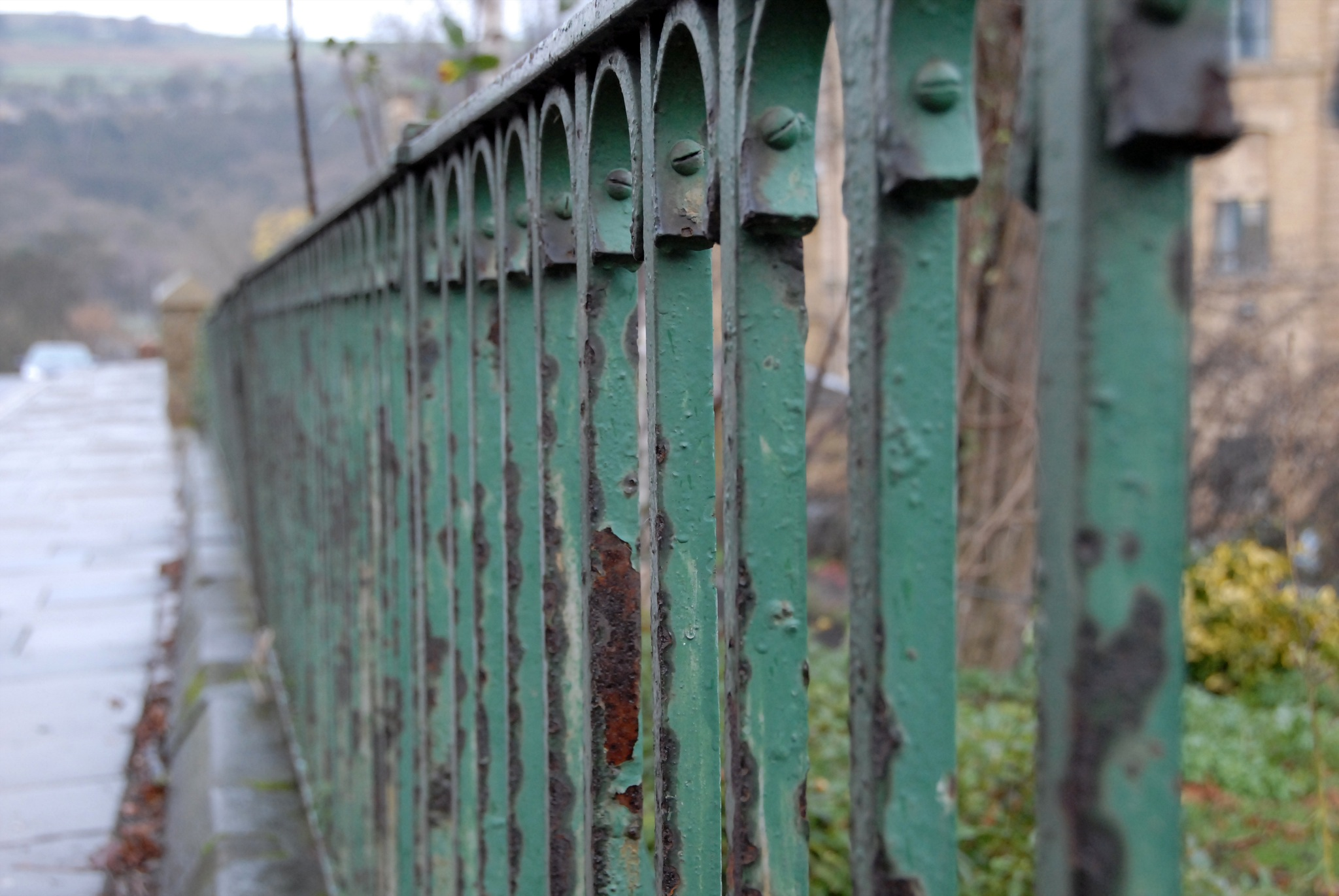 British Isles urban Making Britain Great